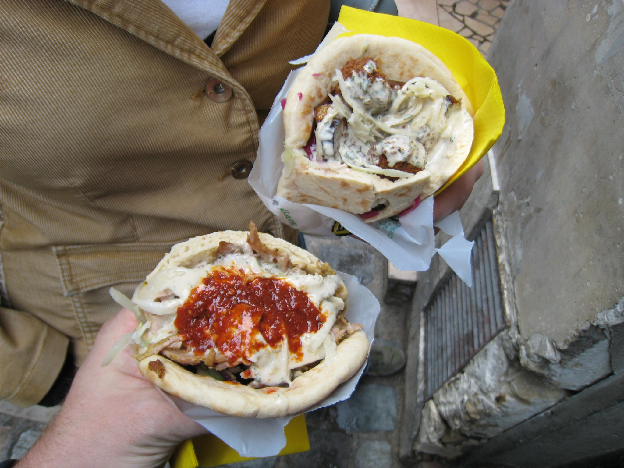 Two specimens of Fallafel and Shawarma sandwiches